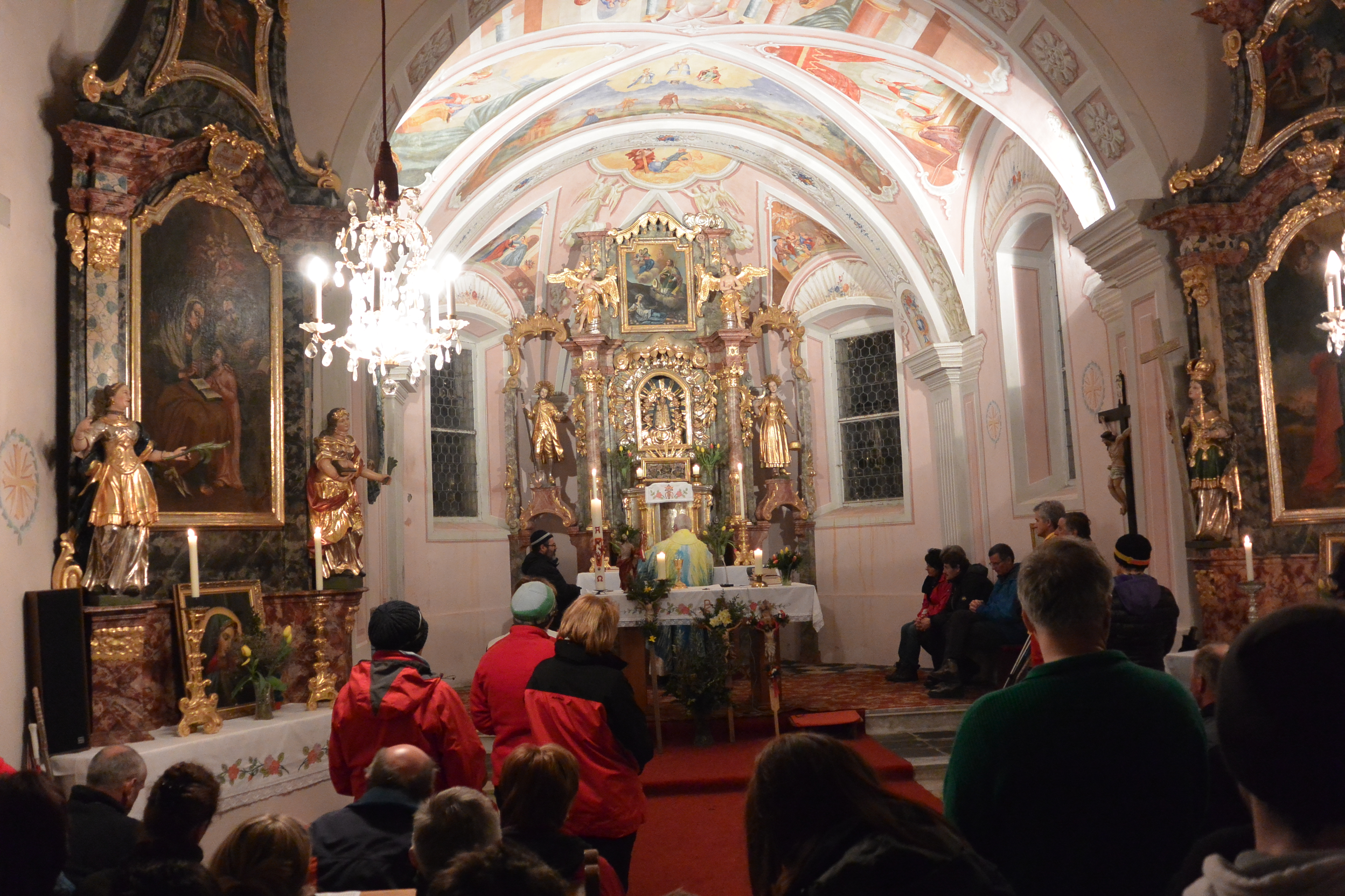 Church at the Lisnaberg in the community of Ruden - Interior